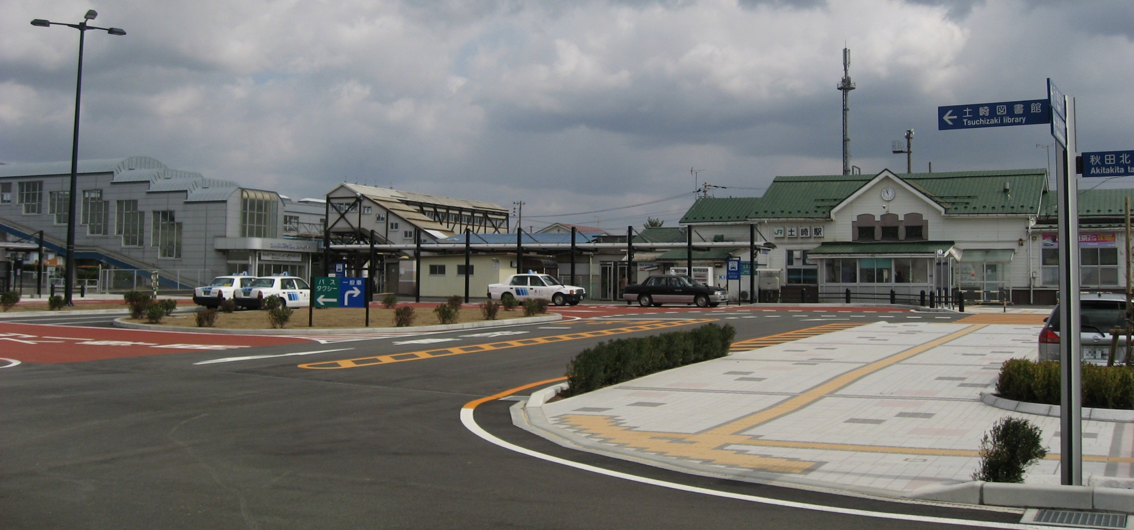 Tsuchizaki Station and station square, 22 March 2010